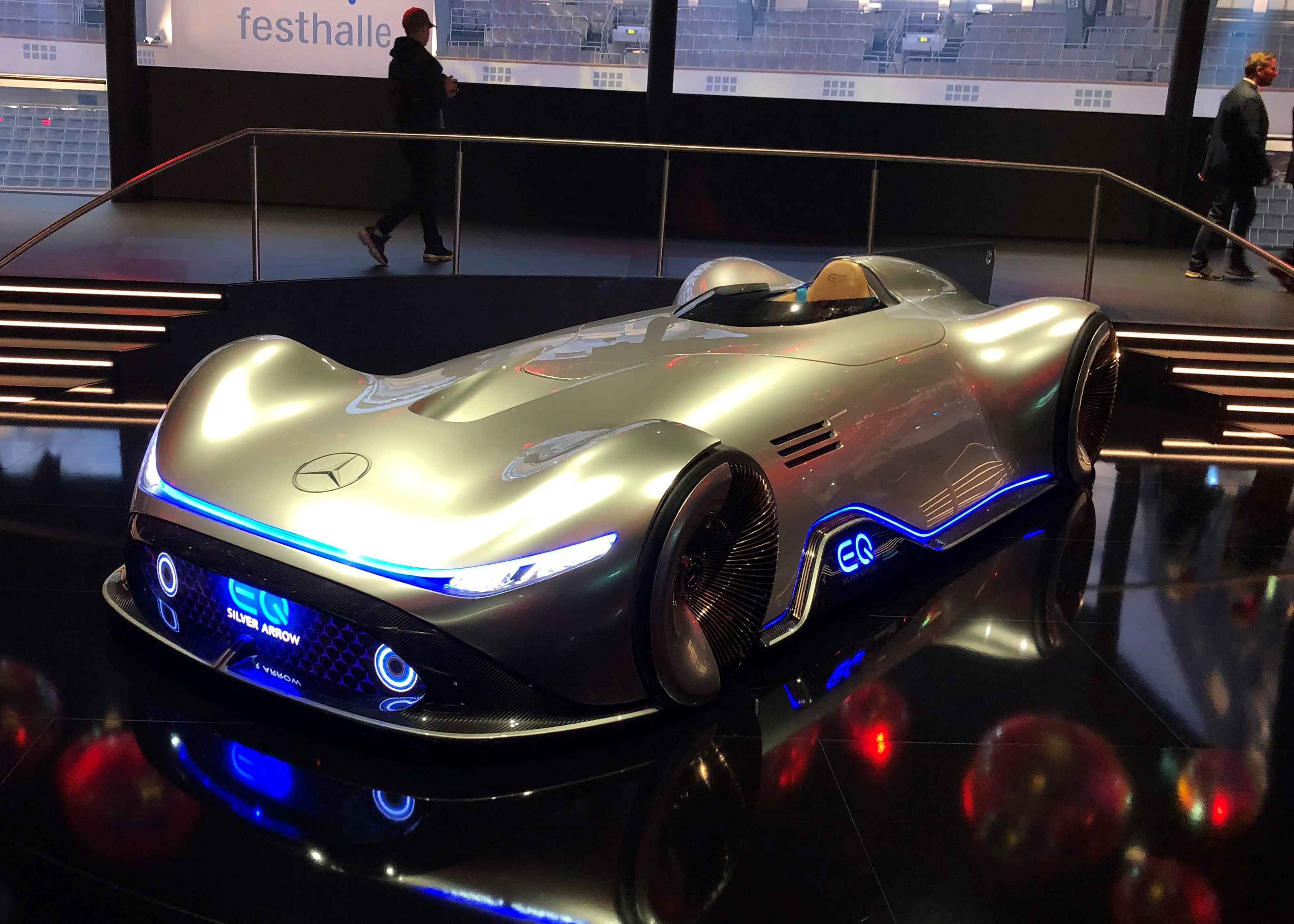 Mercedes Benz EQ Silver Arrow revealed at IAA Frankfurt in 2019